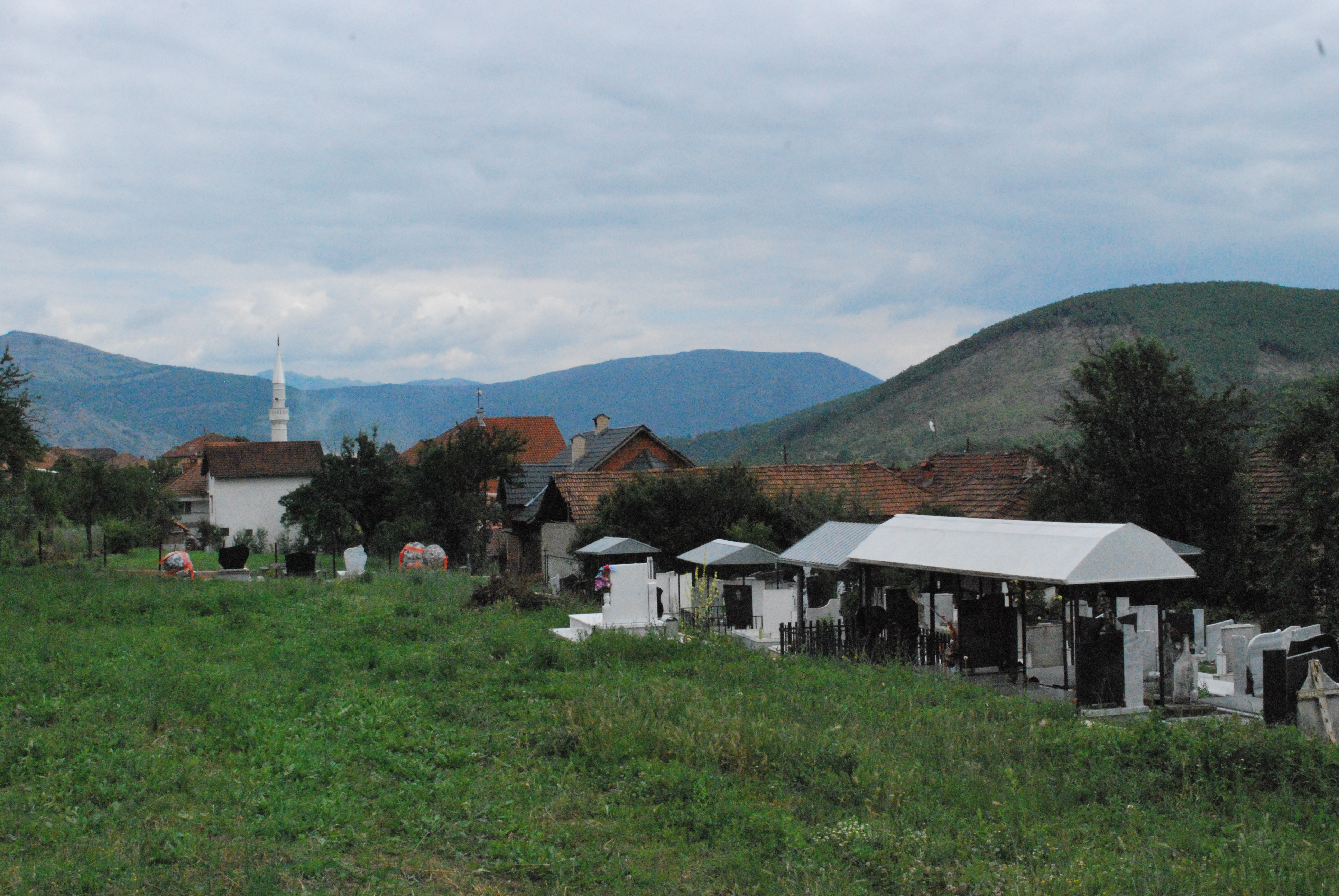 St. Nedela Church in Drugovo, Macedonia